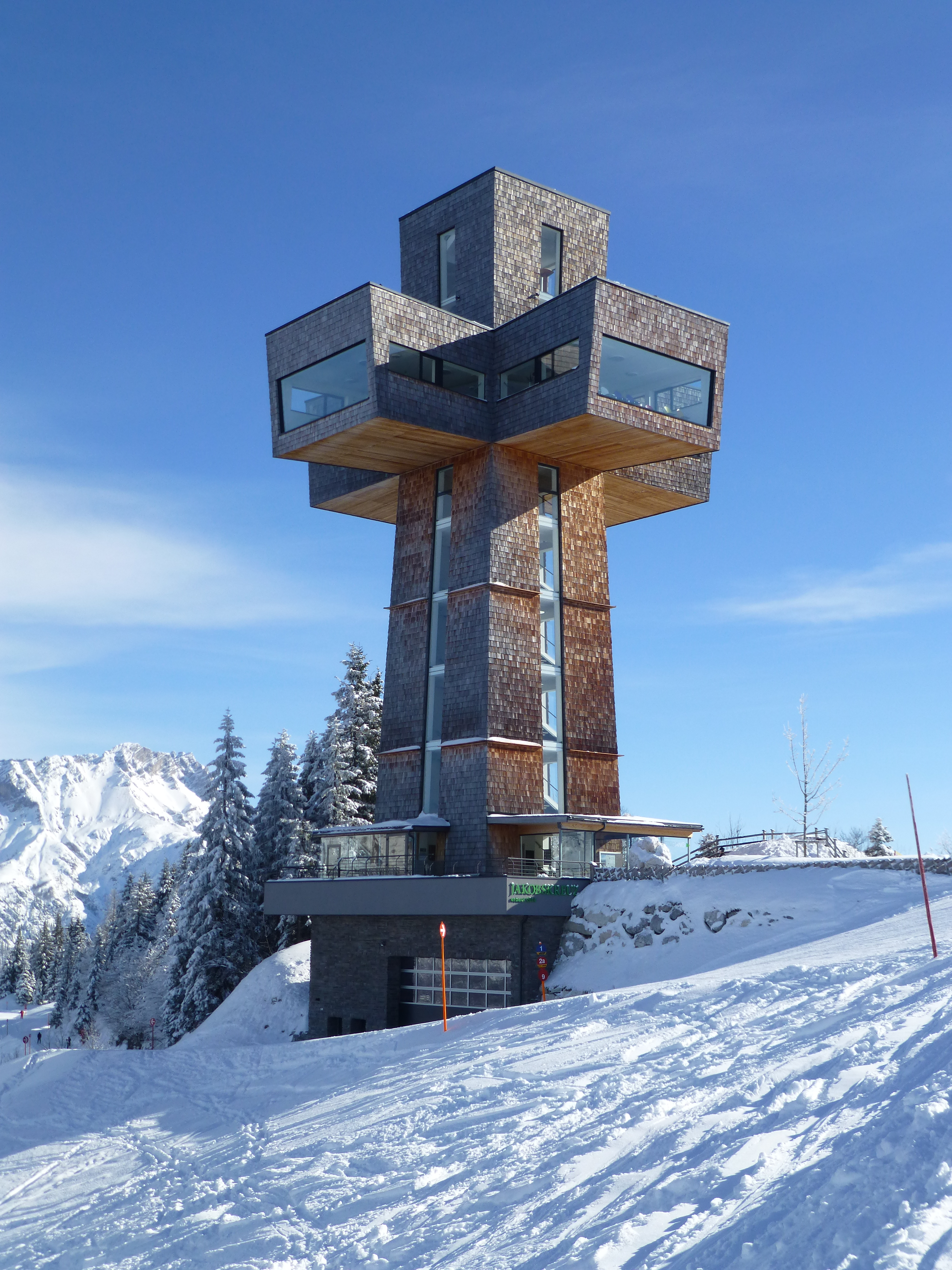 Jakobskreuz on the Austrian mountain Buchensteinwand; View from the west; the entrance area is located on the right side